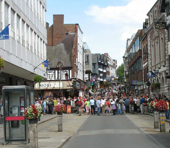 Pride Hill and Mardol Head, Shrewsbury, Shropshire. Photo taken by Chris Bayley using a Canon Powershot A610.